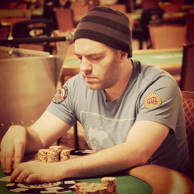 Dutch Boyd at 2015 World Series of Poker